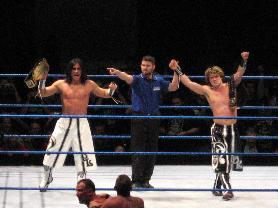 Paul London and Brian Kendrick during a show of the WWE SmackDown Live Tour in Barcelona